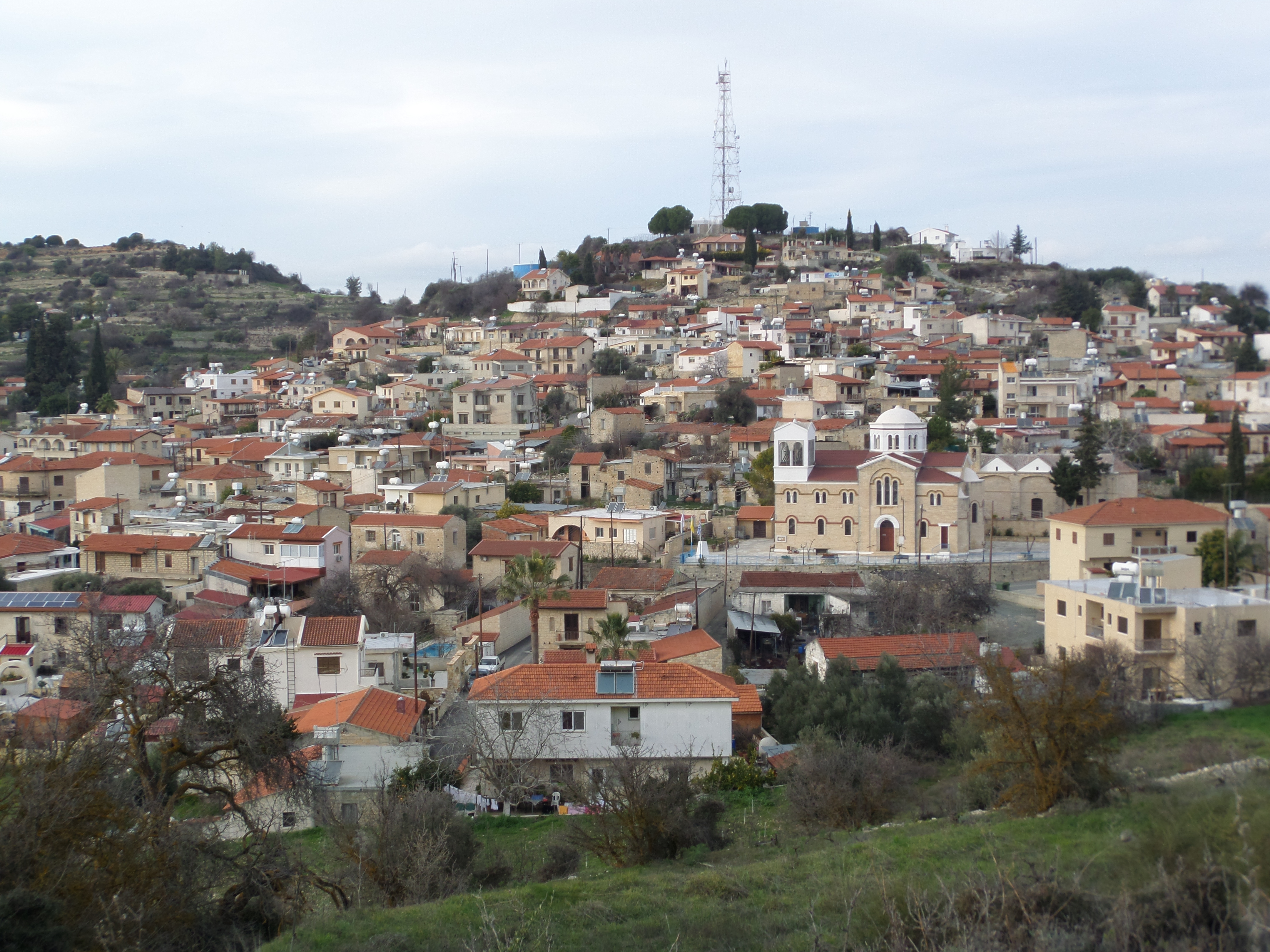 View of Pachna.